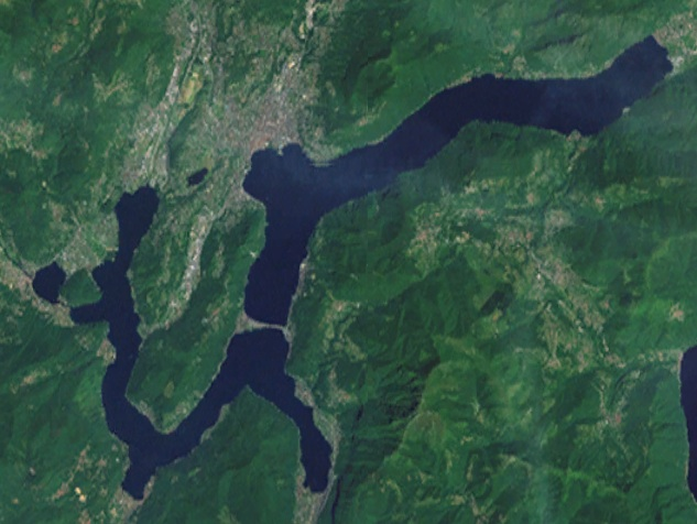 Satellitar photo of Lake Lugano